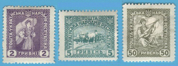 Stamps of Ukrainian People's Republic, The Viennese series, 1920 (Artist N. Ivasjuk)